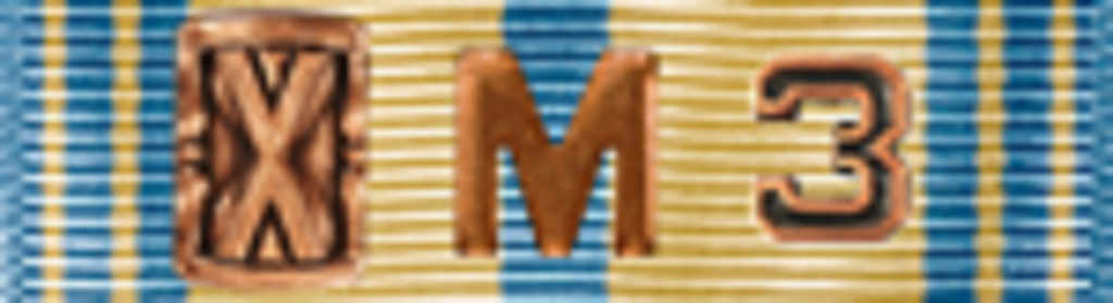 Armed Forces Reserve Medal with Bronze Hour and M 3.png